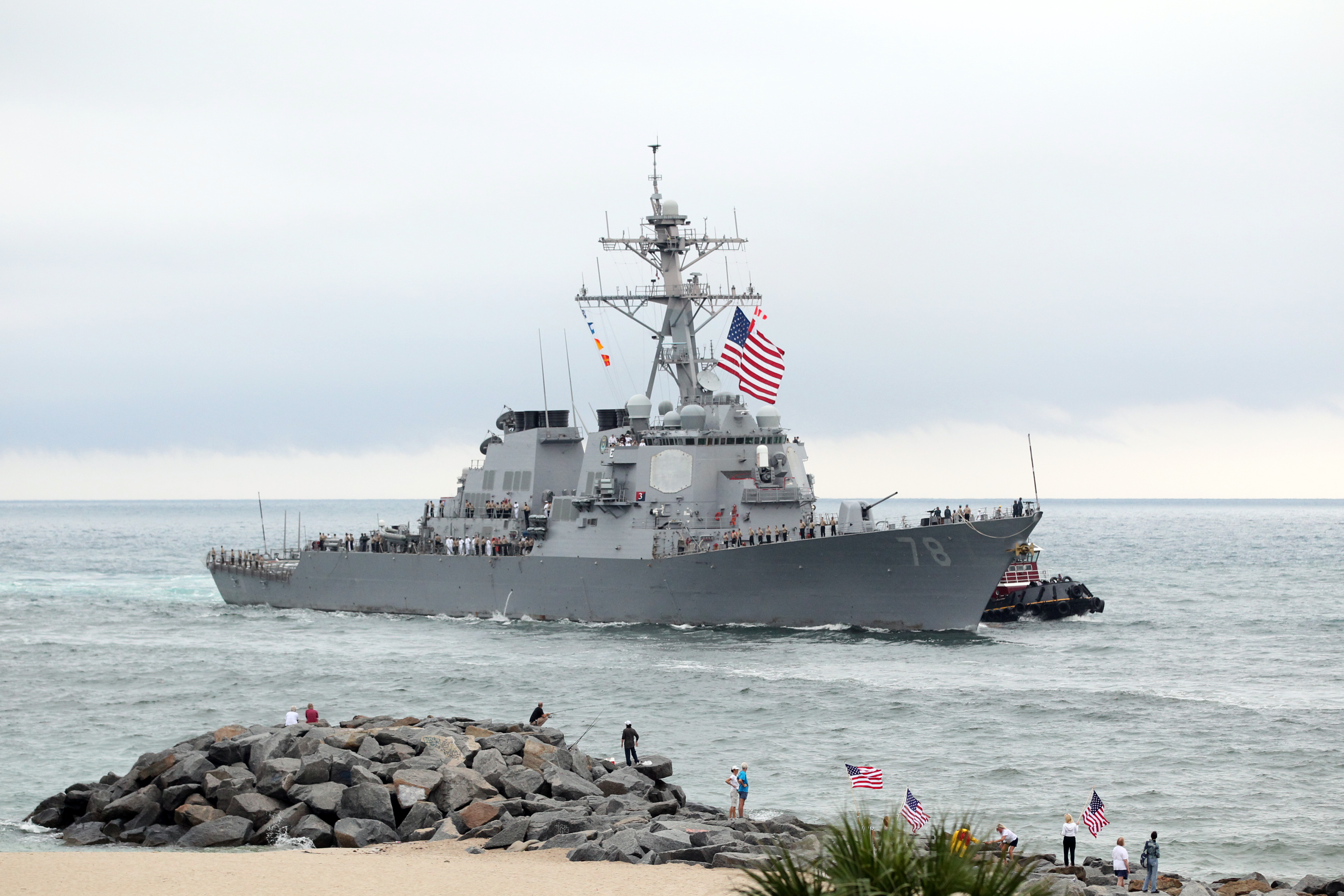 PORT EVERGLADES, Fla. (April 26, 2010) Sailors man the rails as the guided-missile destroyer USS Porter (DDG 78) pulls into Port Everglades, Fla. for Fleet Week Port Everglades. This is the twentieth Fleet Week Port Everglades, South Florida's annual celebration of the Maritime Services. More than 2,500 American and German sailors, marines and coast guardsmen will participate in a number of community outreach activities and enjoy the hospitality and tourism of South Florida. (U.S. Navy photo by Ken Kohl/Released)